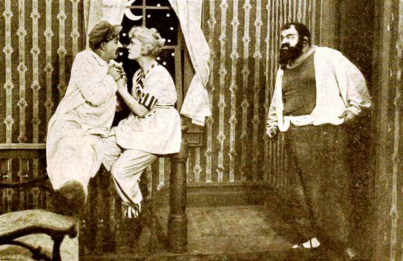 Still from the American comedy film The Foolish Age (1919) with Chester Conklin, Phyllis Haver, and Kalla Pasha, on page 505 of the April 26, 1919 Moving Picture World.